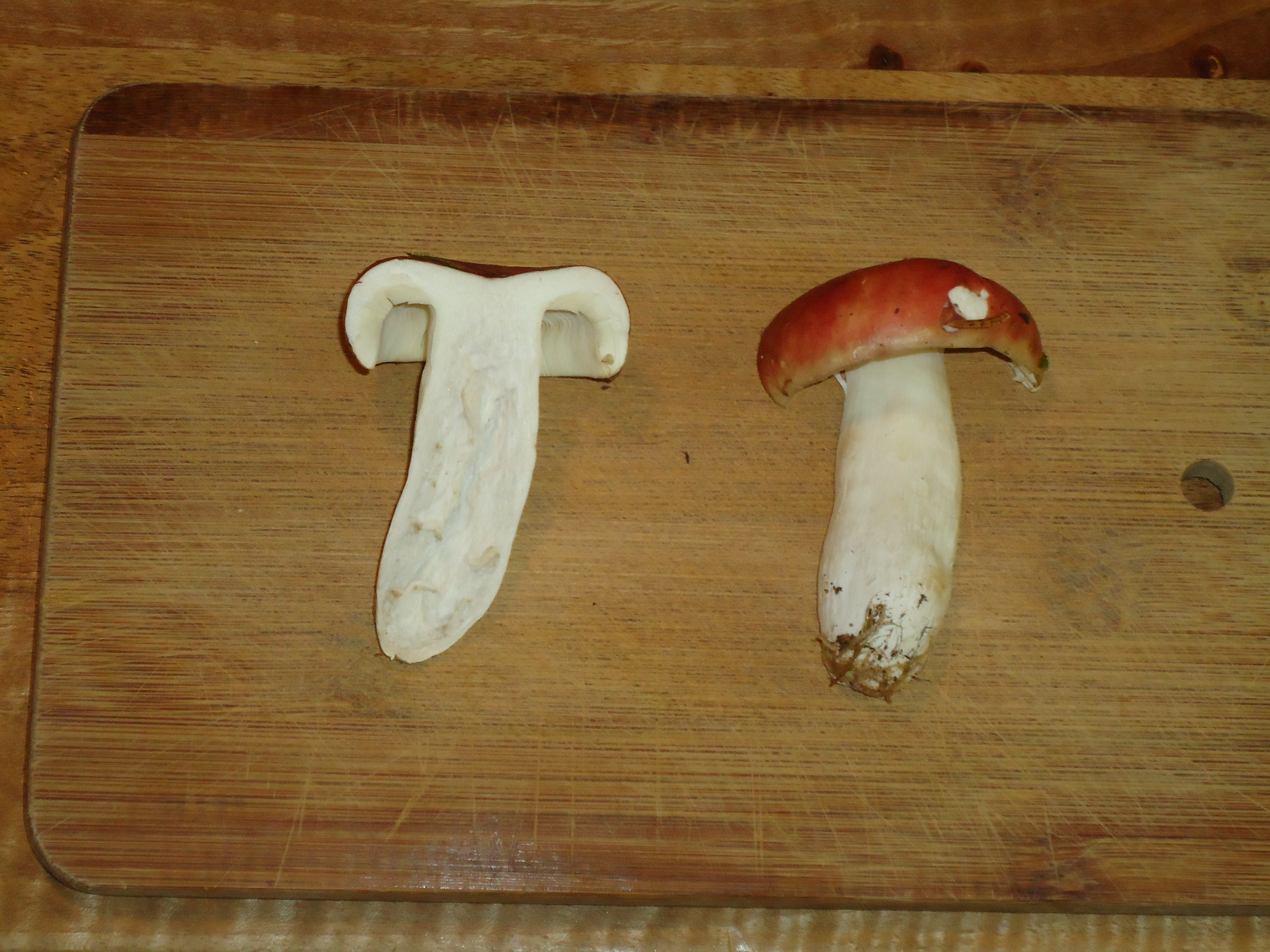 Russula paludosa from the Bavarian Forest, cut in half